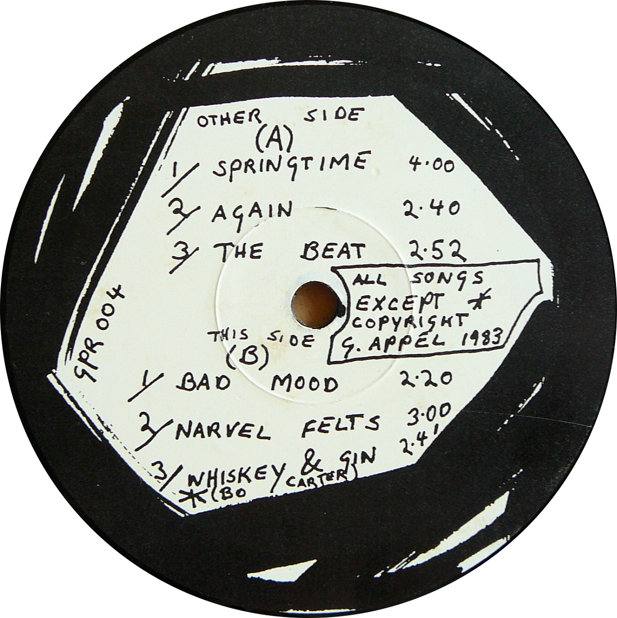 Photograph of B side of a custom printed record label for the Lighthouse Keepers' 12 inch EP/mini album "The Explding Lighthouse Keepers" released independently by their Guthugga Pipeline label in 1983. Original artwork uncredited.